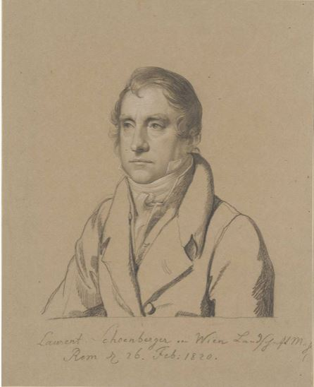 Portrait of the painter, Lorenz Adolf Schonberger (1768-1846)